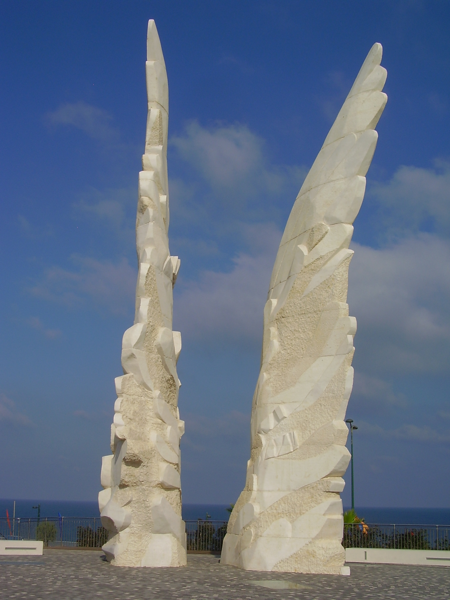 victory monument in netanya כנפי הנצחון באנדרטת הנצחון בנתניה